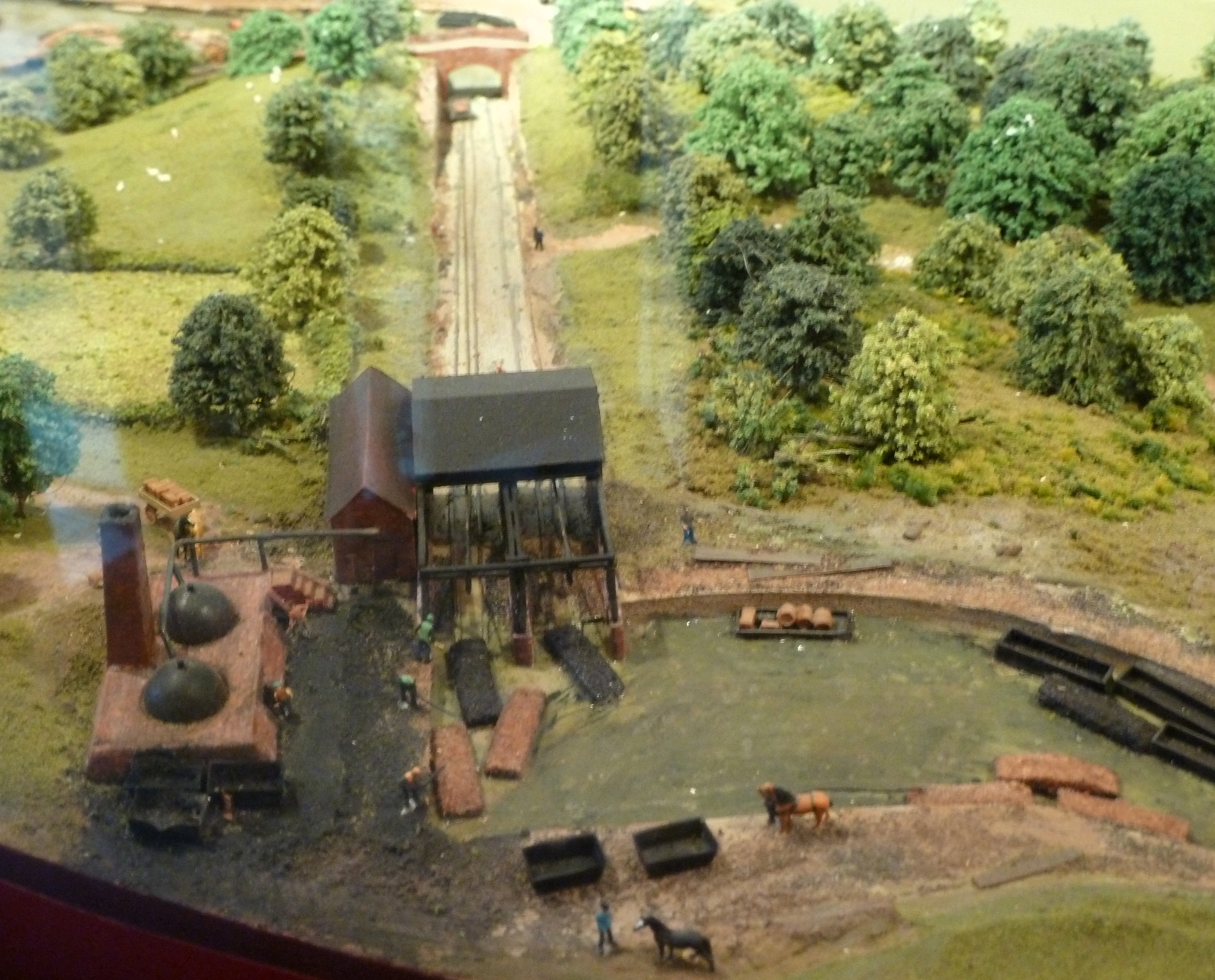 The Ironbridge Gorge diorama inside the Museum of the Gorge, Ironbridge.